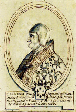 Sketch of Pope Clement IV by 17th century artist